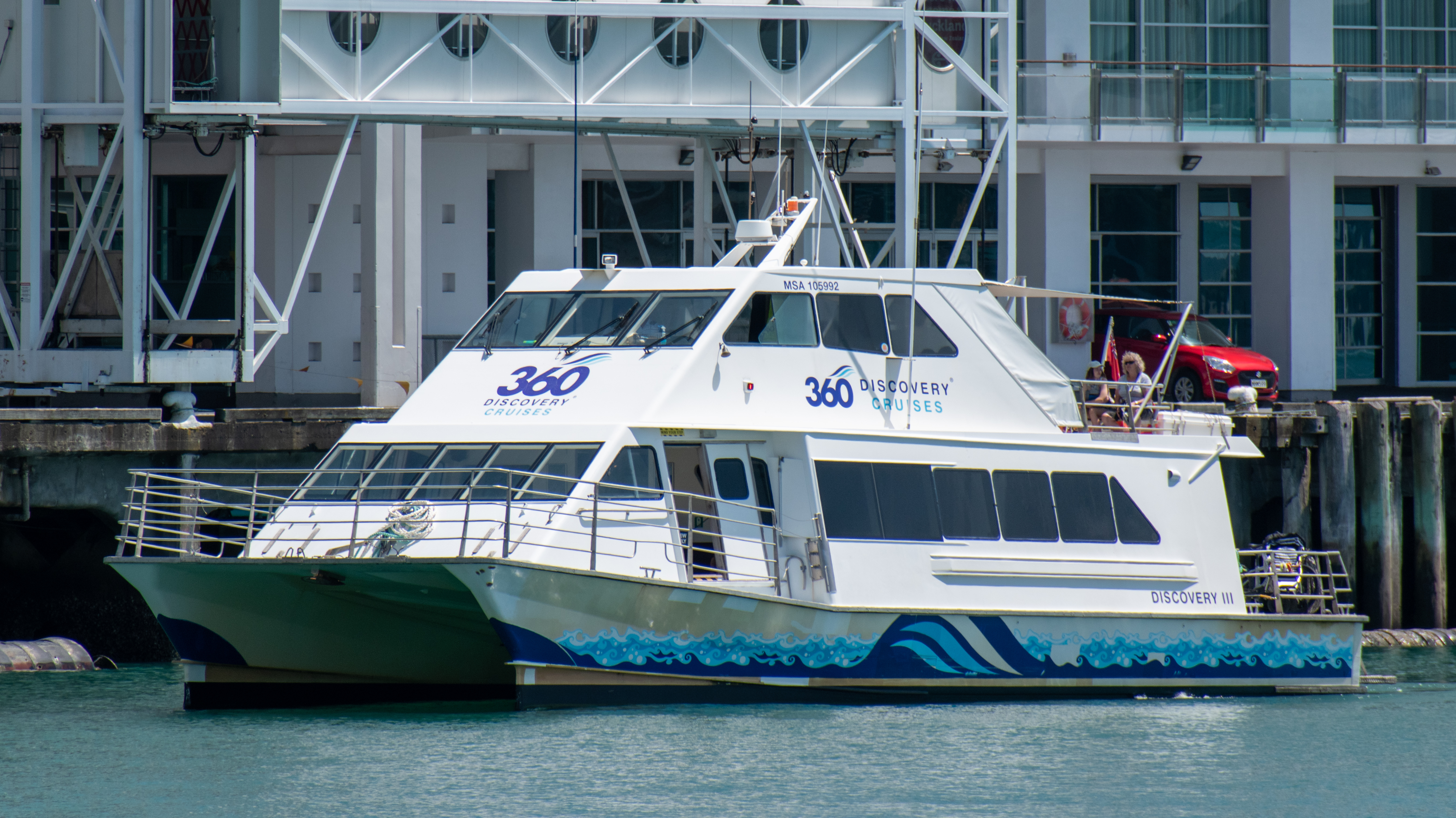 Discovery III